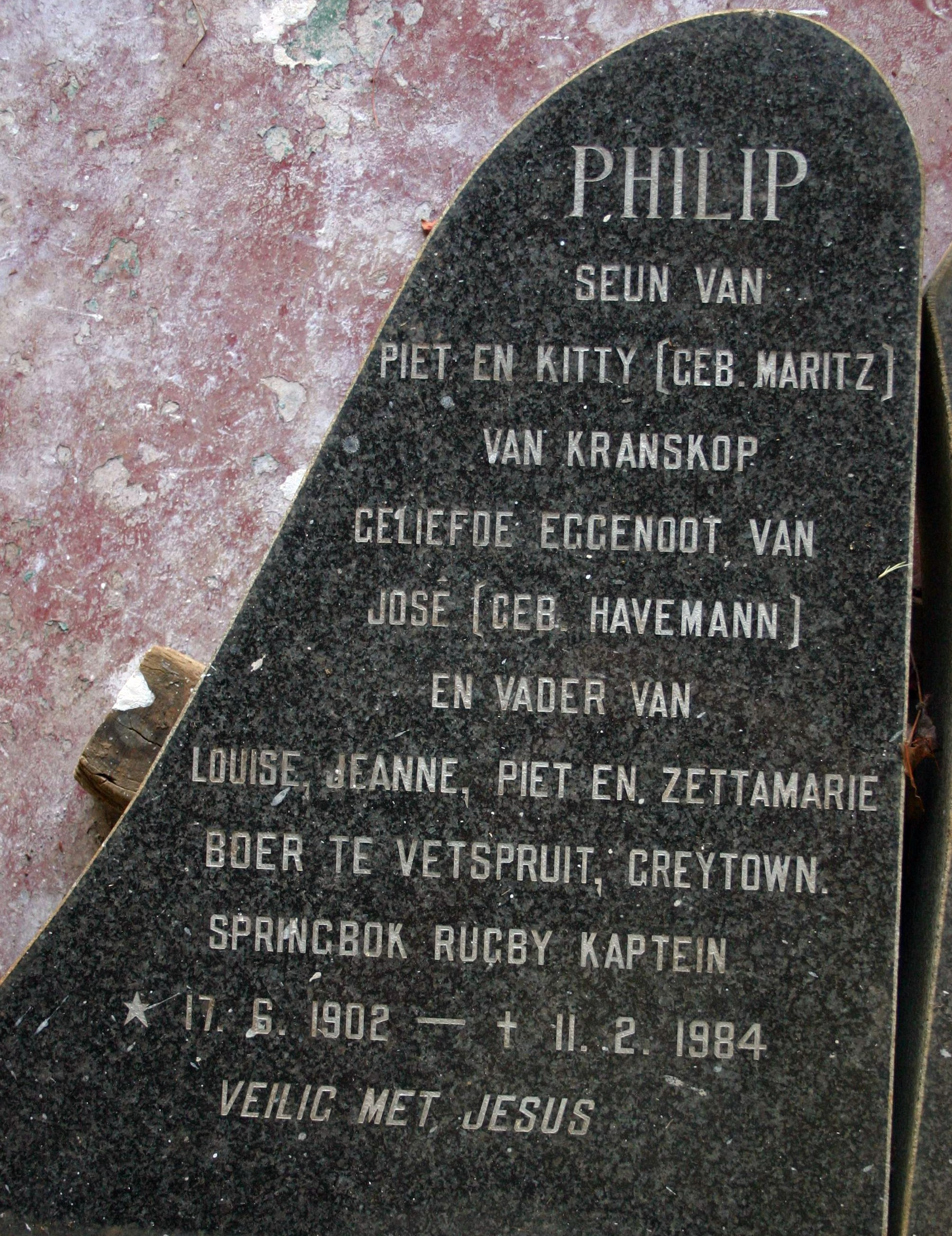 Memorial stone for Philip J Nel (1902-1984), Rugby Springbok, farm Menneheim, Greytown district, South Africa